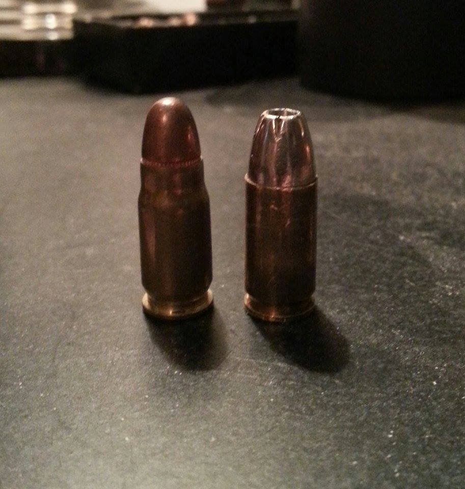 7.65x21mm Parabellum, also known as .30 Luger, made by Western, (left) next to 9x19mm Parabellum, made by Winchester (right).